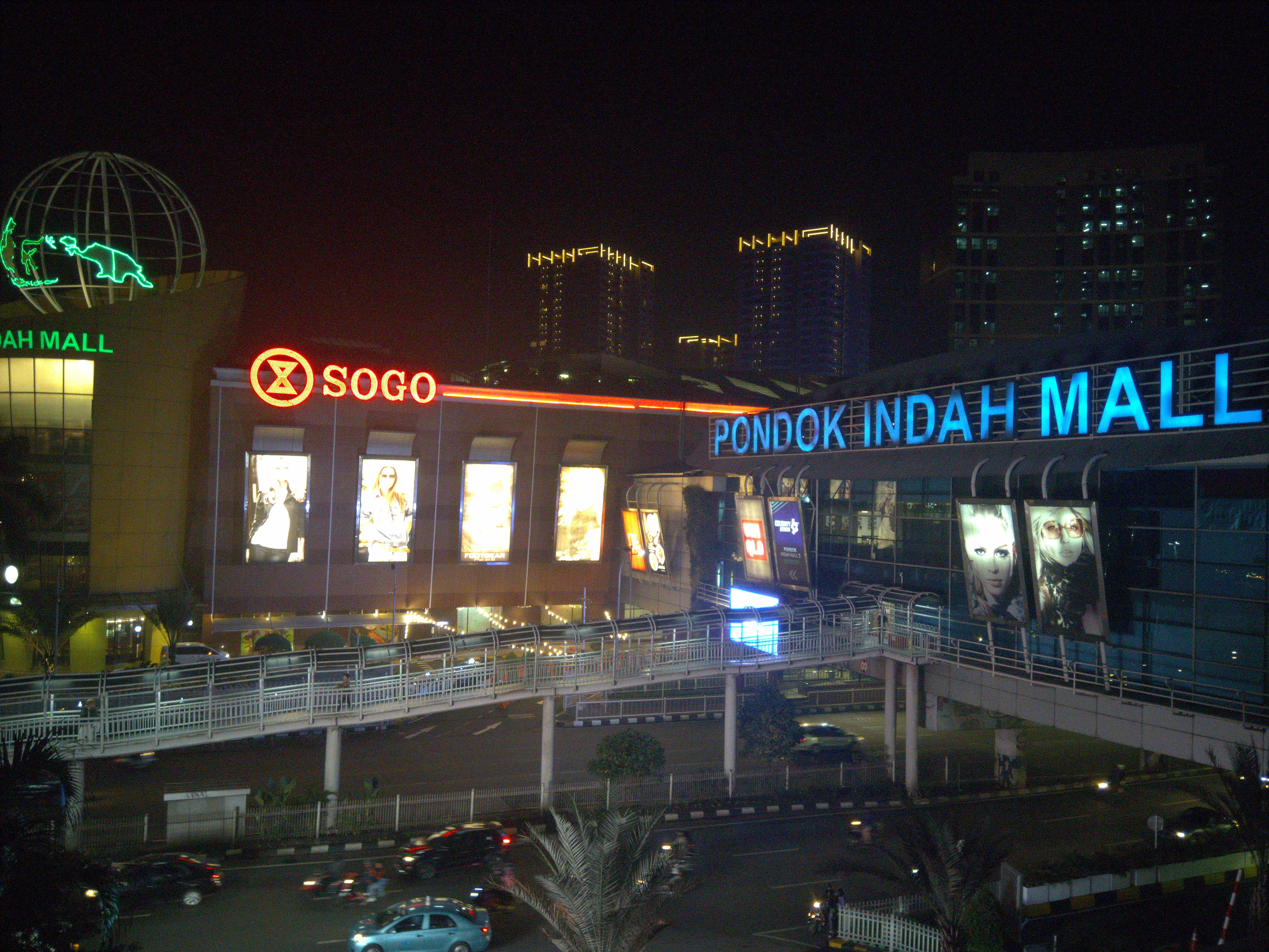 Pondok Indah Mall at night